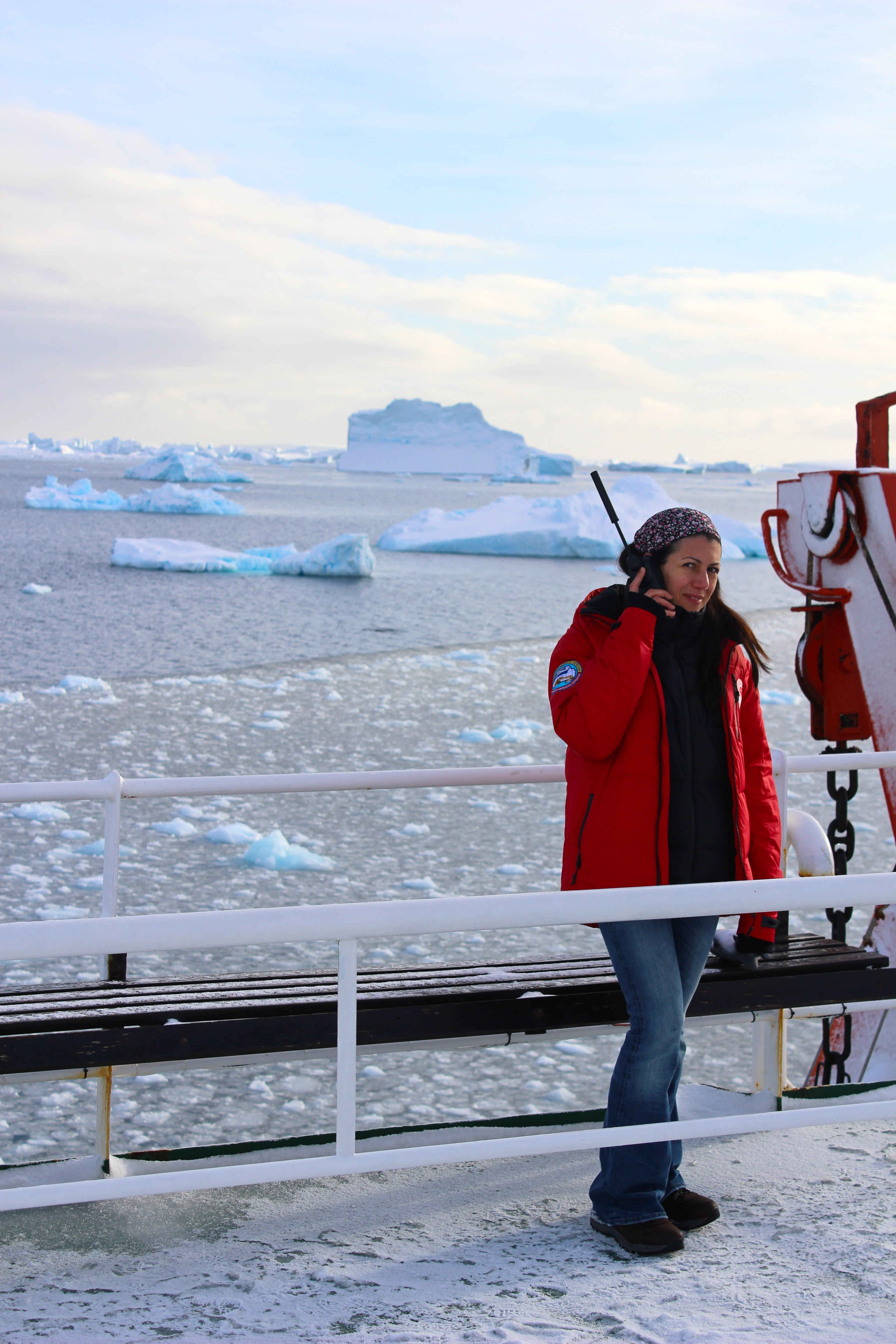 While talking with secondary school kids via Iridium satellite phone during Turkish Antarctic Research Expedition 2016